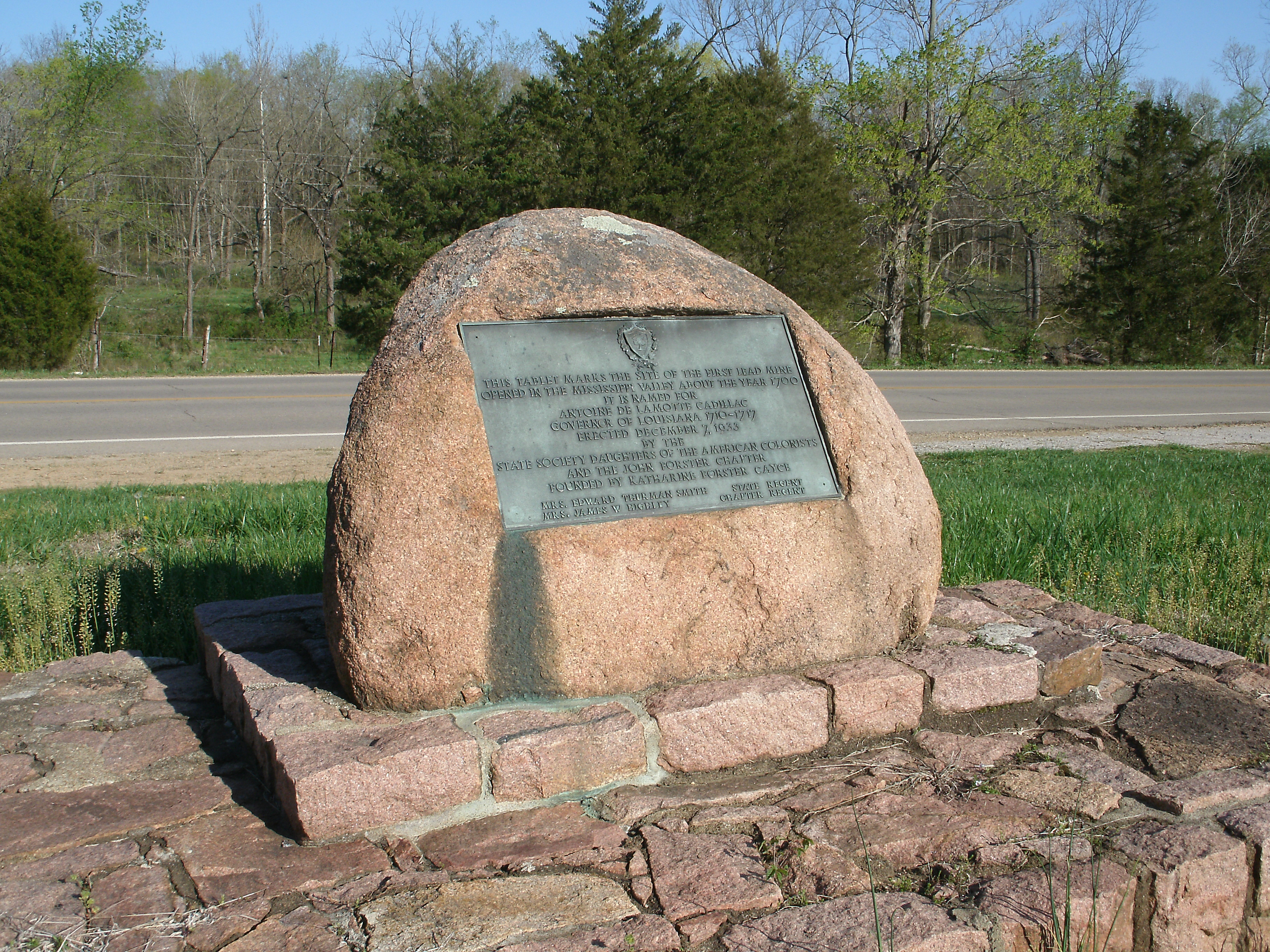 A historical marker in Mine La Motte, Missouri commemorating the first lead mine in the Missouri. The text reads: This tablet marks the site of the first lead mine opened in the Mississippi Valley about the year 1700. It is named for Antoine De LaMotte Cadillac, governor of Louisiana 1710-1717. Erected December 7, 1933, by the State Society Daughters of the American Colonists and the John Forster Chapter founded by Katharine Forster Cayce. Mrs. Edward Thurman Smith State Regent Mrs. James W. Highley - Chapter Regent